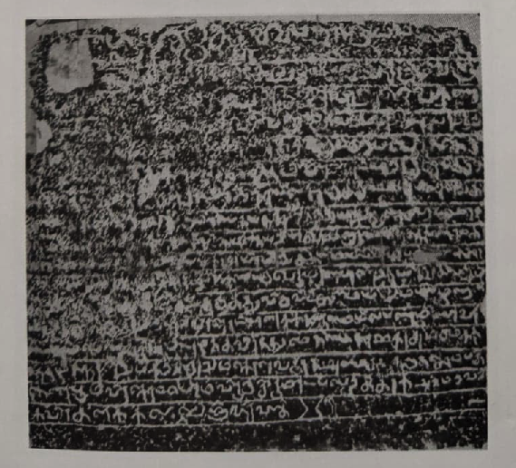 Galtampitiya Virakkoti inscription